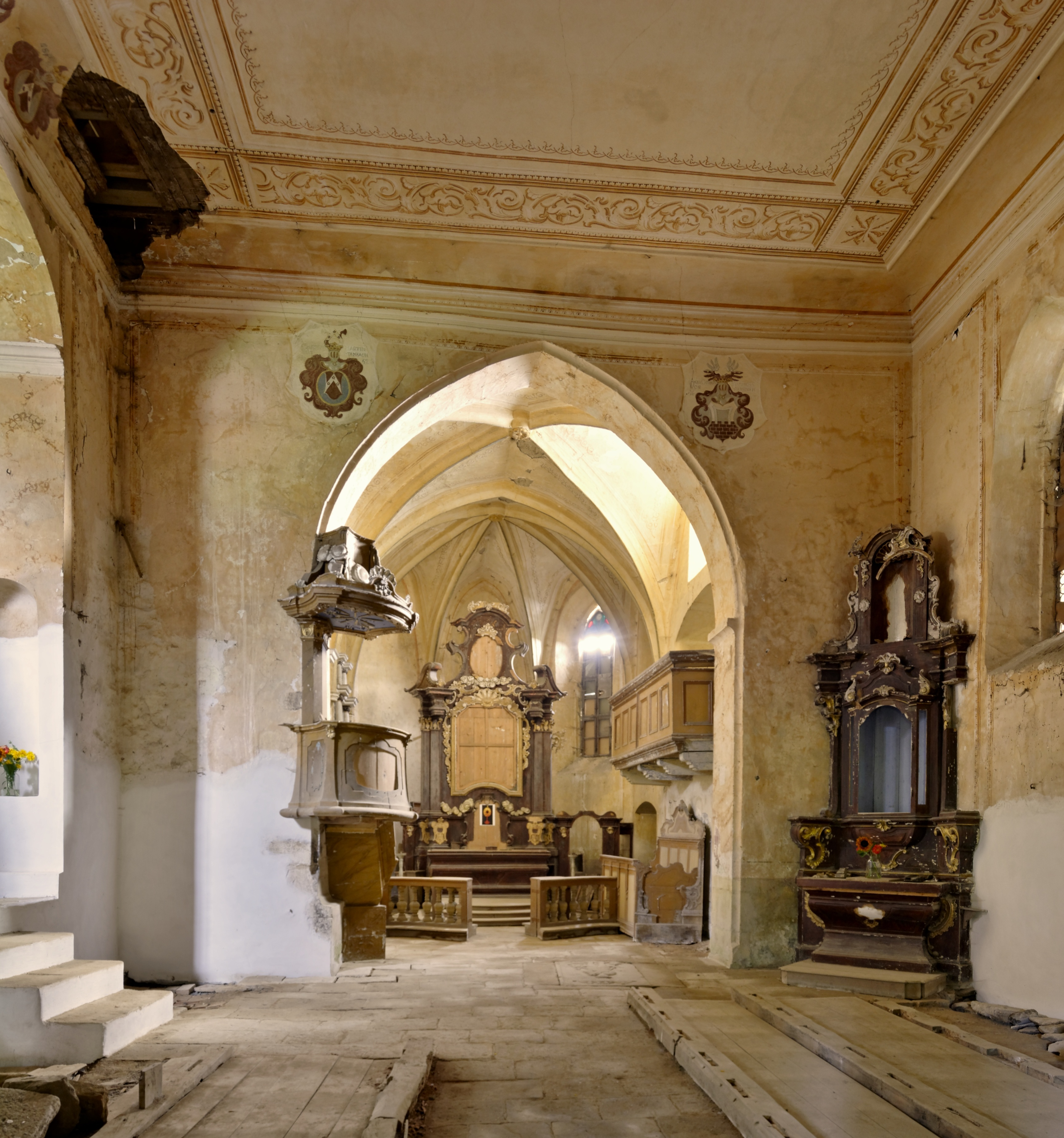 Church of the Assumption of the Virgin Mary in Kozlov.